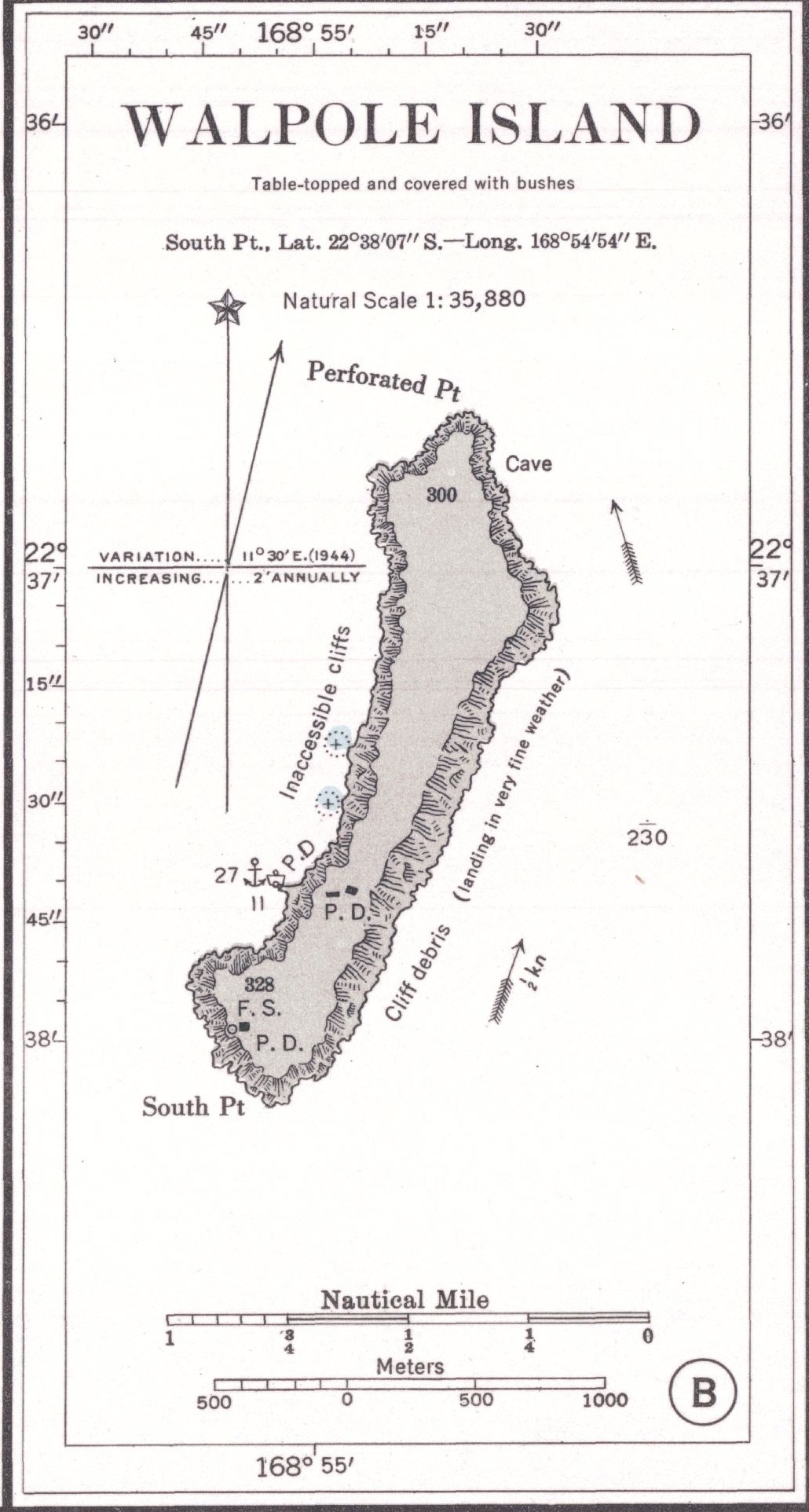 Old U.S. Nautical Chart of Aneityum and adjacent islands, South Pacific Ocean